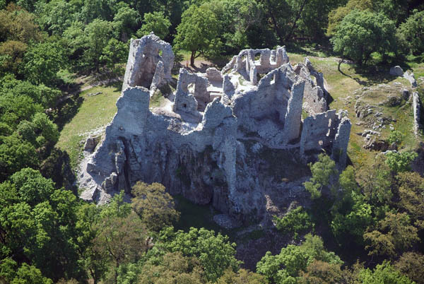 Hrušov Castle, Slovakia, aerial photography